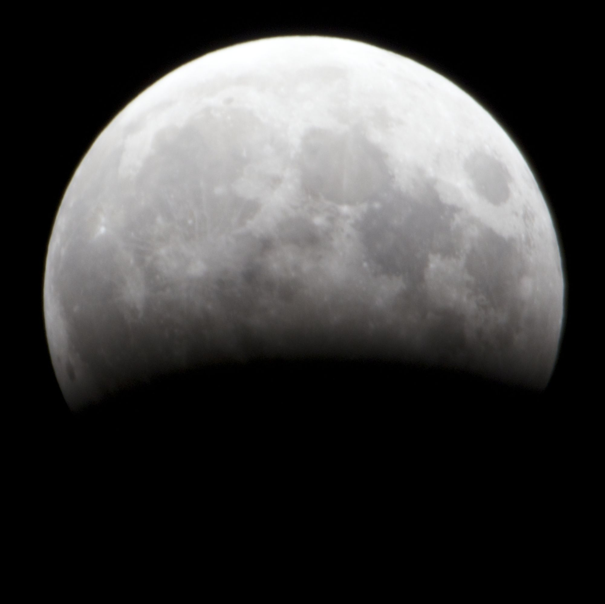 Partial eclipse of Moon 4th June 2012, rotated and cropped from File:Partial Eclipse of Moon.jpg